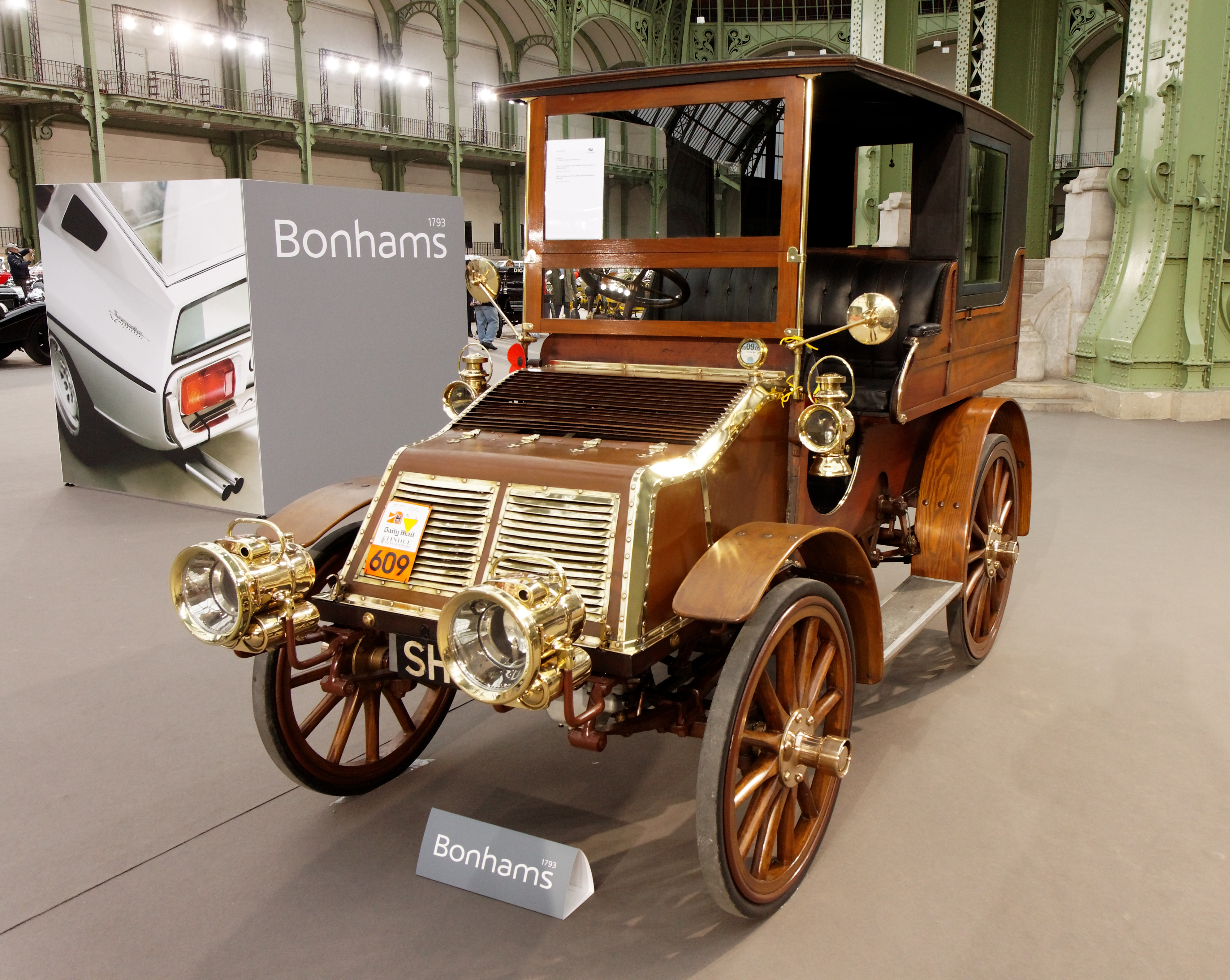 1904 Arrol-Johnston 20 CV limousine during « 110 ans de l'automobile » exhibition in the Grand Palais.